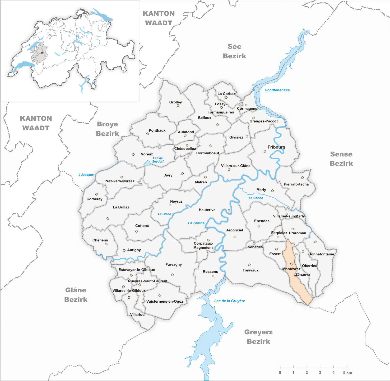 Municipality Montévraz Artist: Tschubby